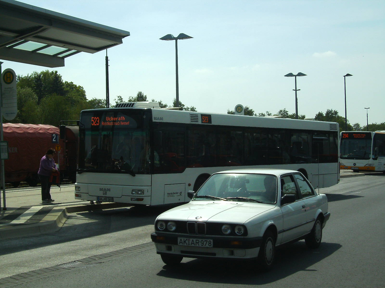 Bus line 523 at the station Altenkirchen (Westerwald)